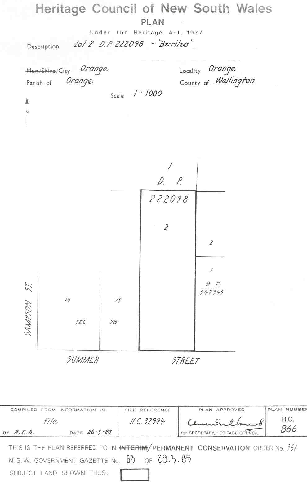 Berrilea: PCO Plan Number 361